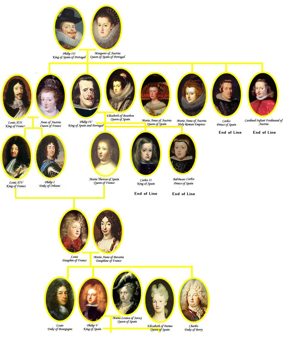 A Family tree of the Spanish House of Habsburg, leading to the Spanish House of Bourbon.